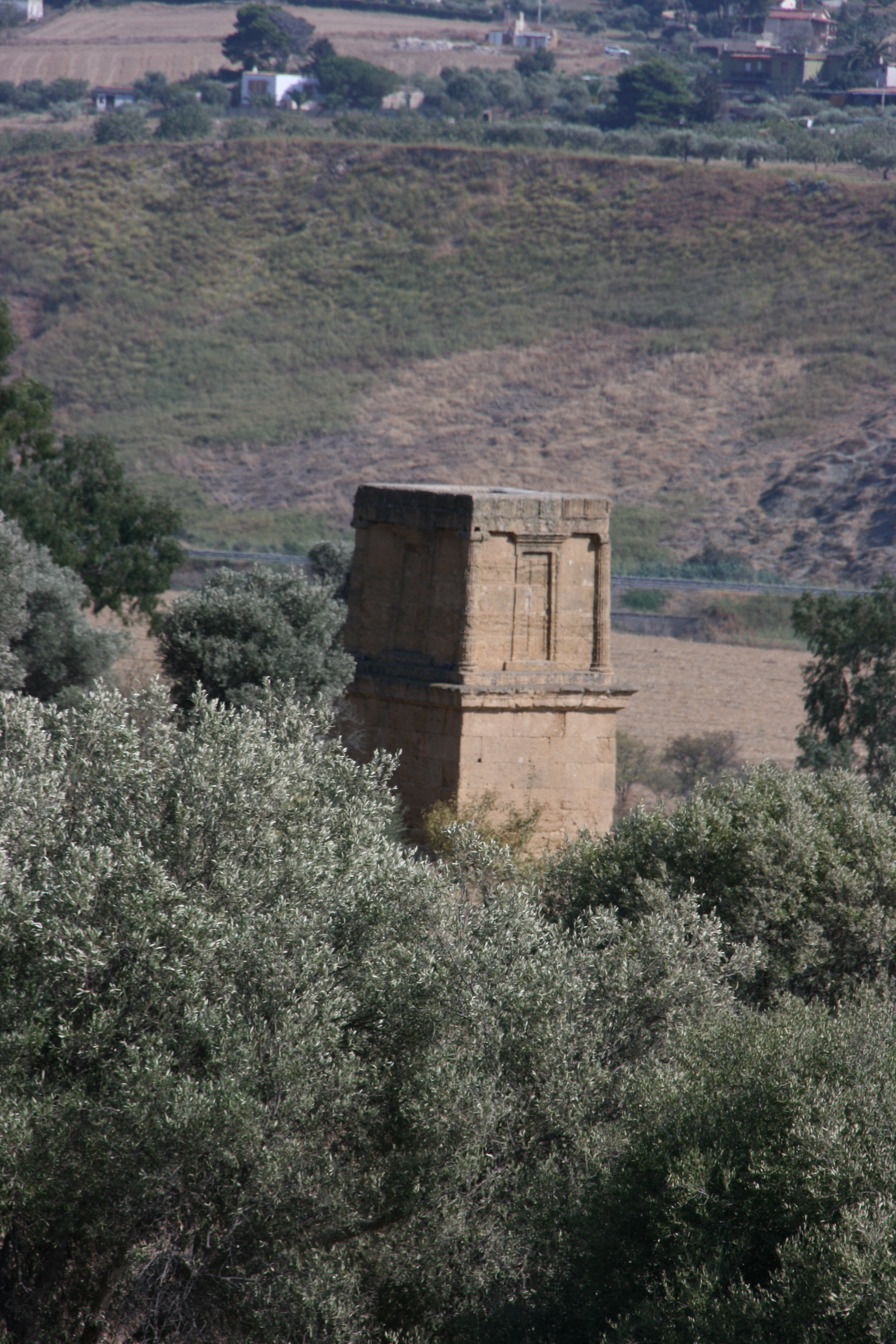 The so-called "Tomb of Theron" near the Porta Aurea, Agrigento.